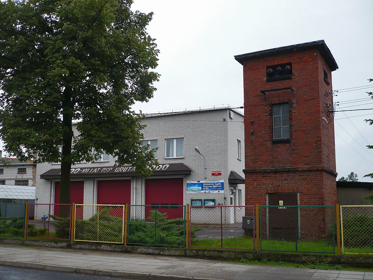 Fire brigade in Gruta